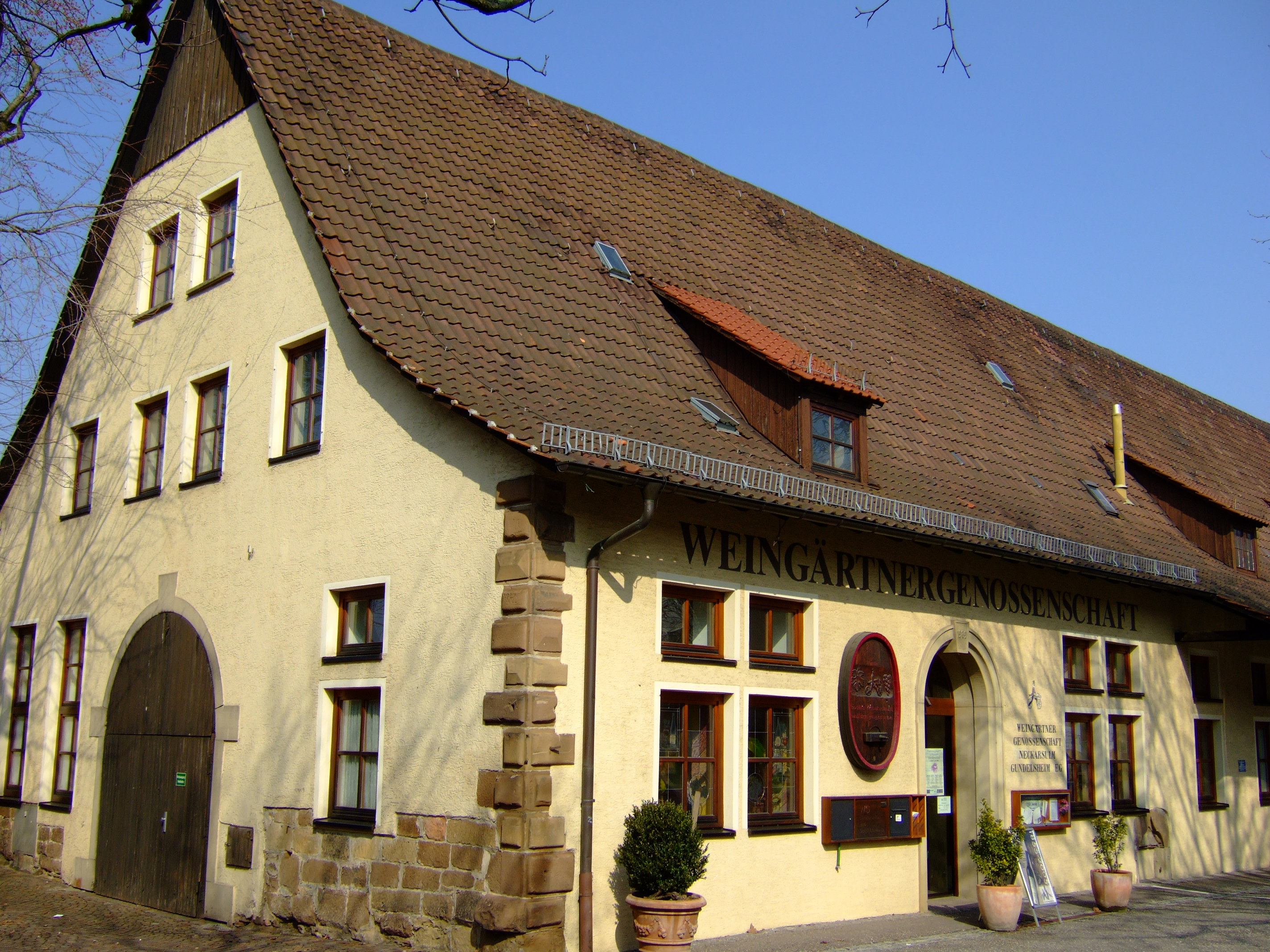 Cooperative of the wine-grower of the town Neckarsulm, Germany